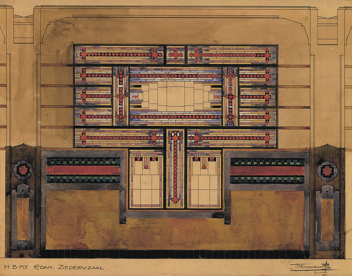 W. Kromhout. Interieur voor Heineken's Brouwerijen Rotterdam, 1922-1932. Collectie NAi, KROM 71 W. Kromhout. Heineken's Brewery Interior. Rotterdam, 1922-1932. NAI Collection, KROM 71